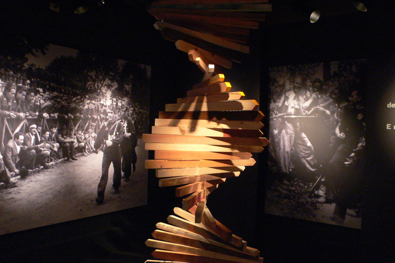 installazione lignea